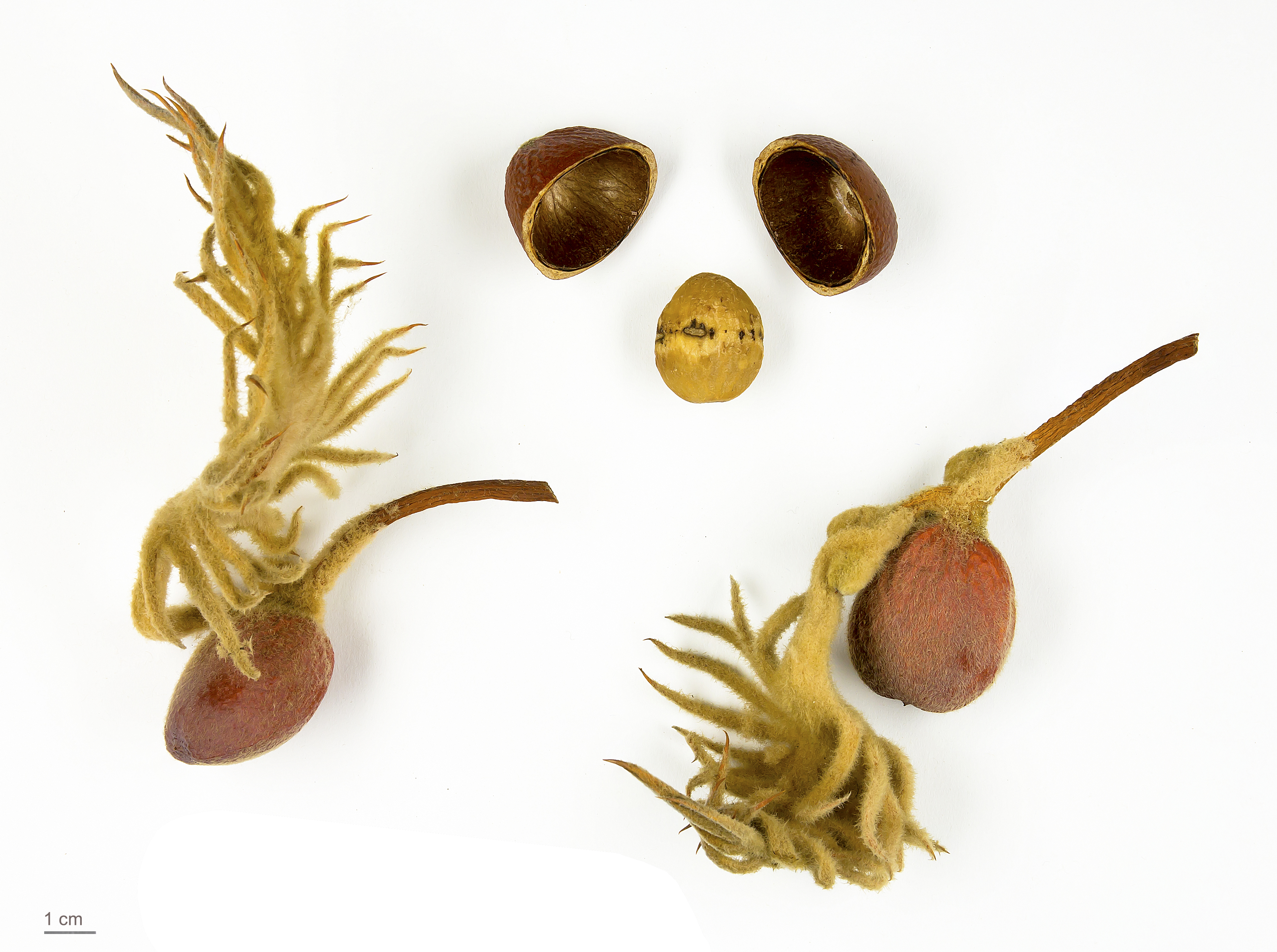 Cycas revoluta, sago palm, seeds